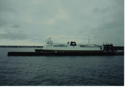 The MV John Hamilton Gray. From the photo collection of Ferryguy.